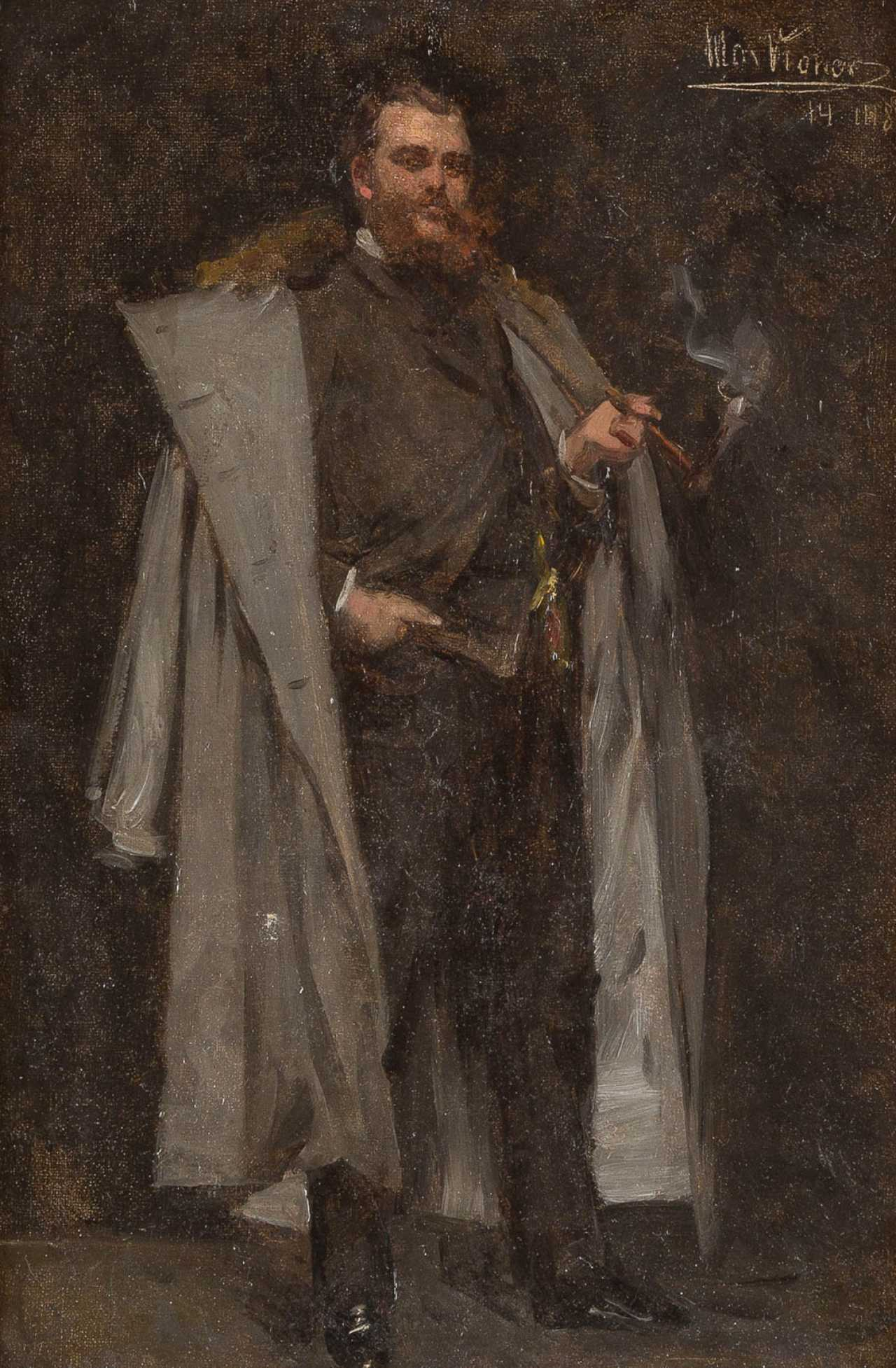 Portrait of a Man in a Fur-lined Cloak (the Norwegian painter, Peder Balke?)